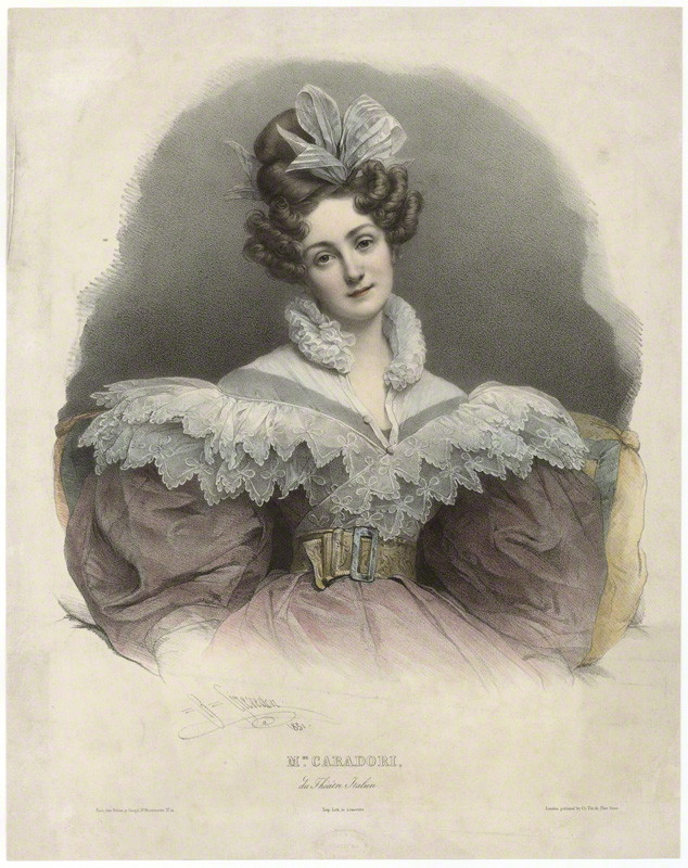 Maria Caterina Rosalbina Caradori-Allan by Pierre Louis ('Henri') Grevedon hand-coloured lithograph, 1831 16 7/8 in. x 13 3/8 in. (428 mm x 339 mm) paper size Purchased, 1966 Reference Collection NPG D32598